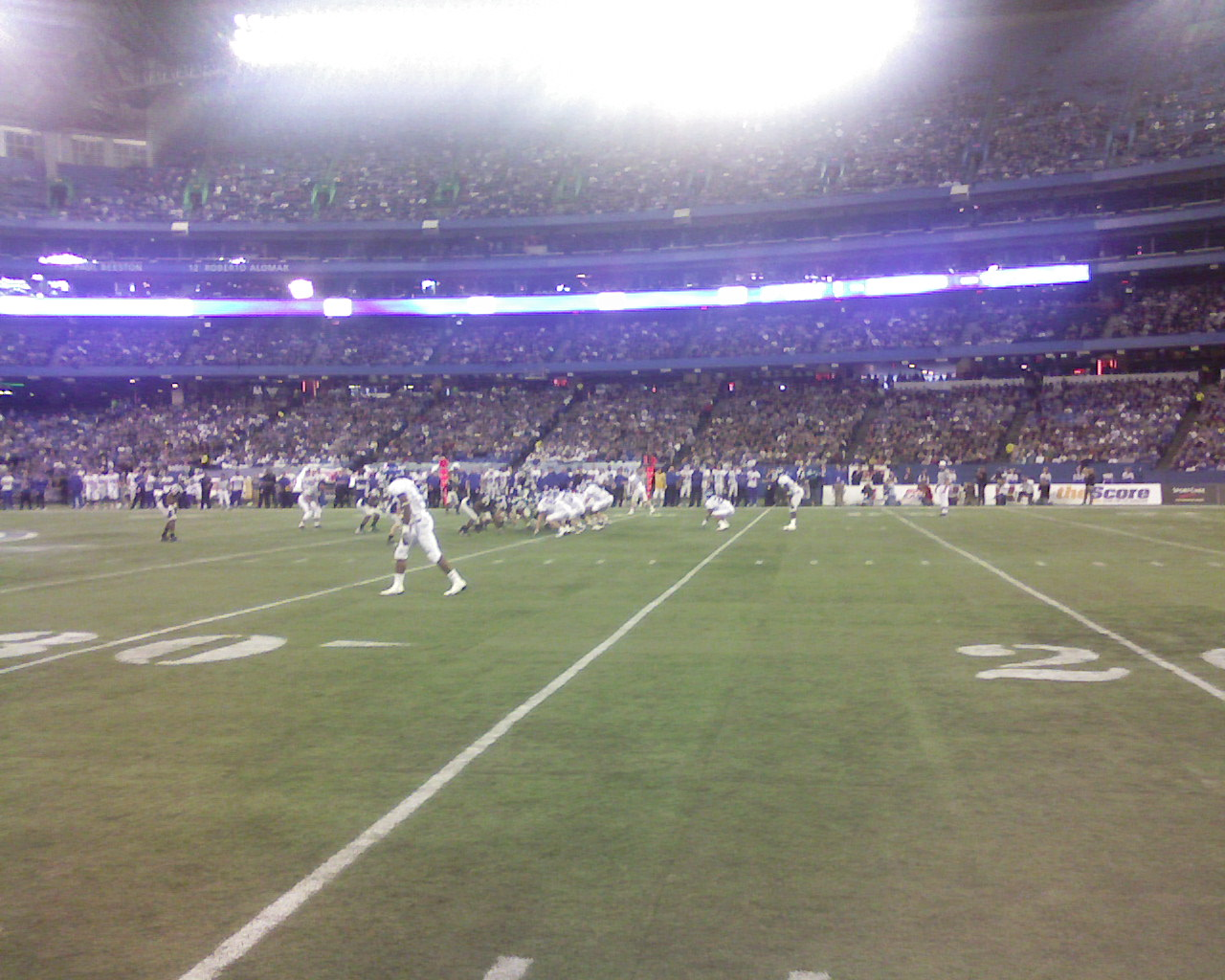 en:2008 Connecticut Huskies football team in blue versus en:2008 Buffalo Bulls football team in white at the en:2009 International Bowl